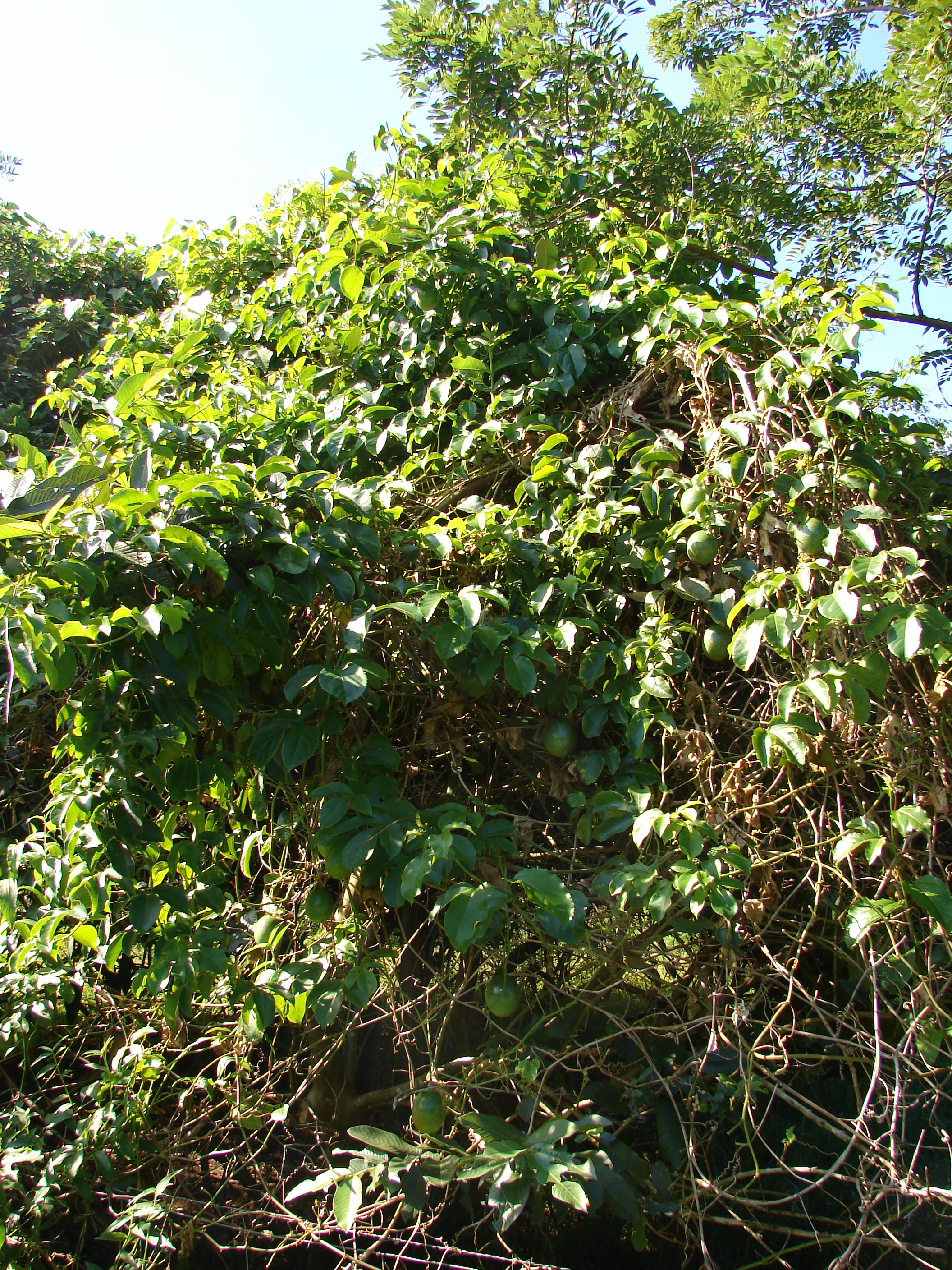 Passiflora edulis (habit). Location: Maui, West Kuiaha Rd Haiku